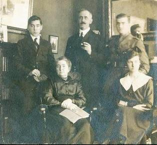 Top Left: Laurence Manning, about age 17. Top Center: Laurence's father, Dr. James W. Manning. Top Right, Laurence's brother, Frederick Charles (died of wounds suffered in Battle of Vimy Ridge, France, 9 Apr 1917. Bottom left: Laurence's mother, Helen G.A. Hanington. Bottom right: Laurence's sister, Helen Marjorie.